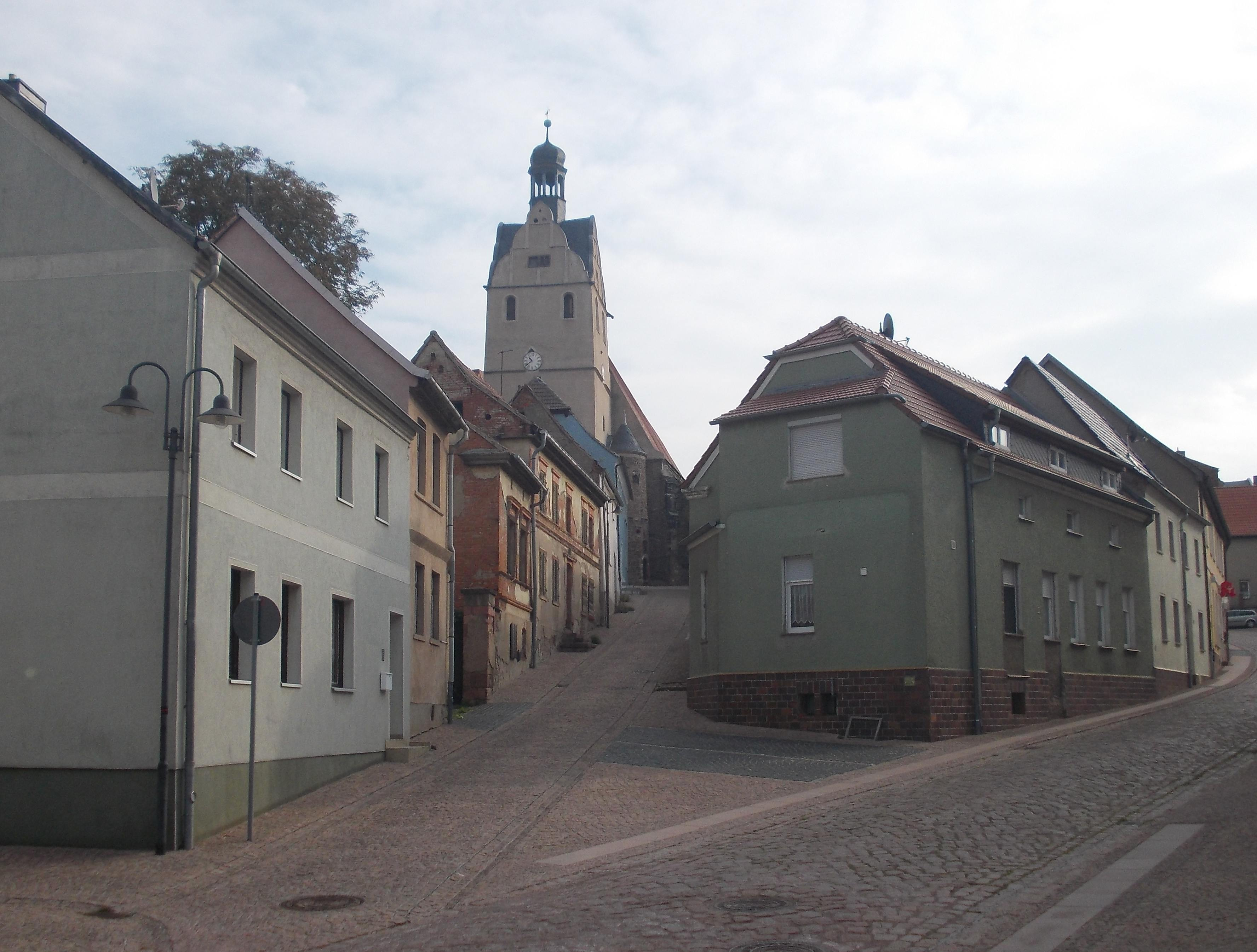 Schulberg street in Löbejün (Wettin-Löbejün, district: Saalekreis, Saxony-Anhalt)